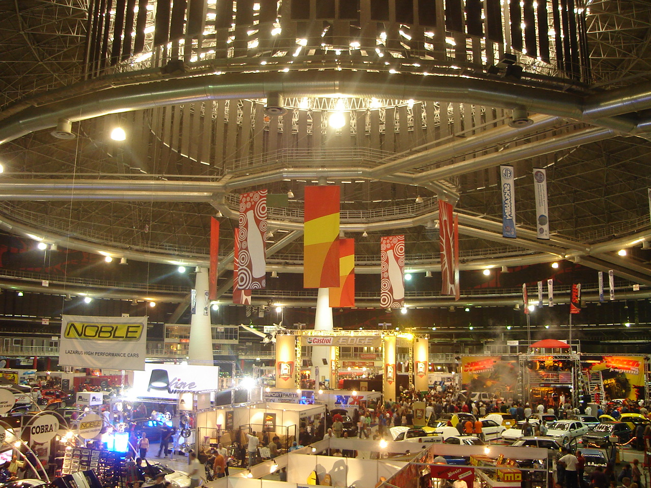 An autoshow held in the Coca-Cola Dome. Photo date August 6 2005. Photo taken by Wariner Gray. Should feature in the article Coca_Cola_Dome